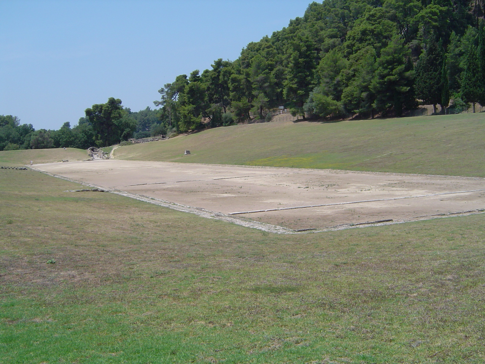 Olympic Race Track in modern Olympia, Greece